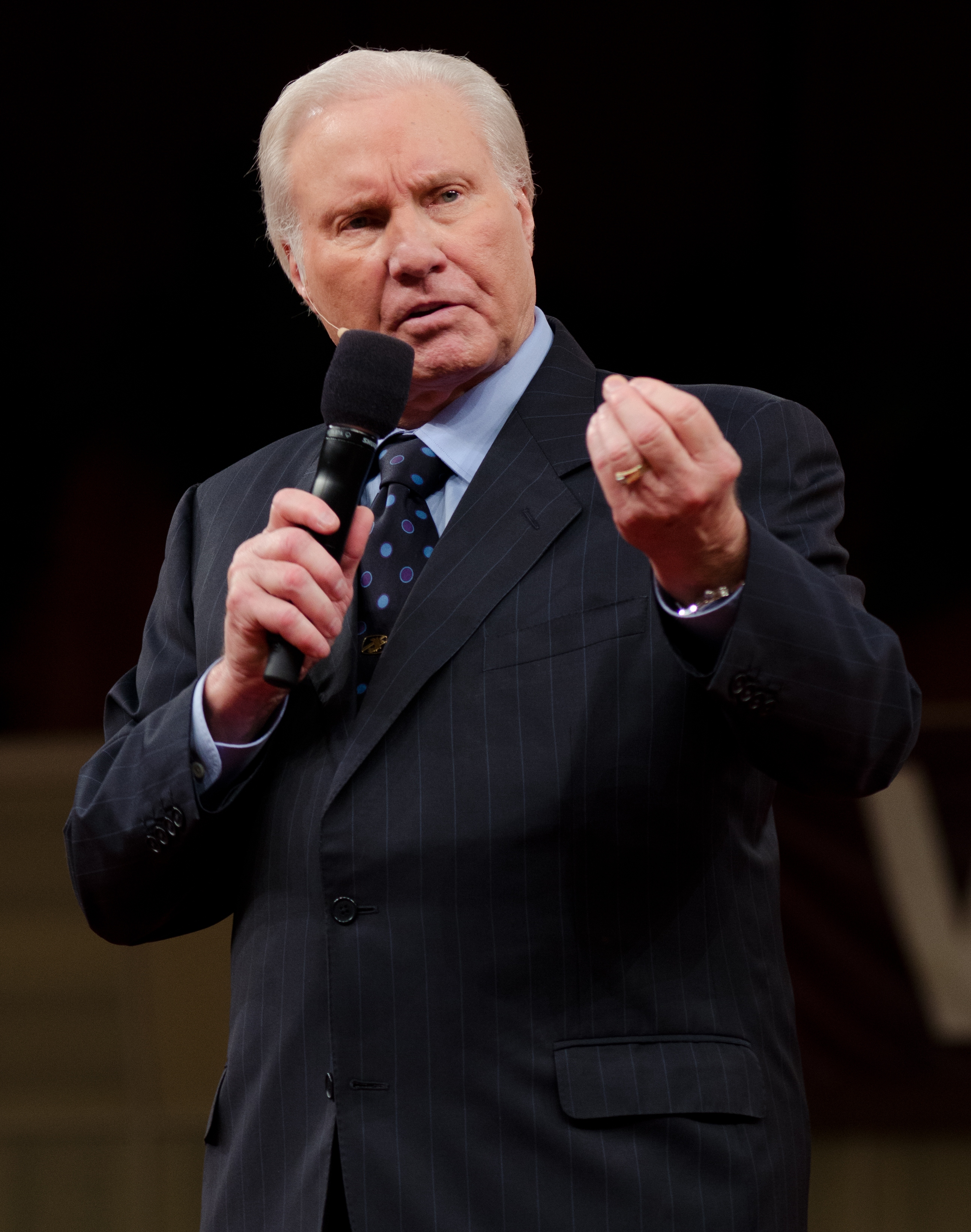 Jimmy Swaggart onstage